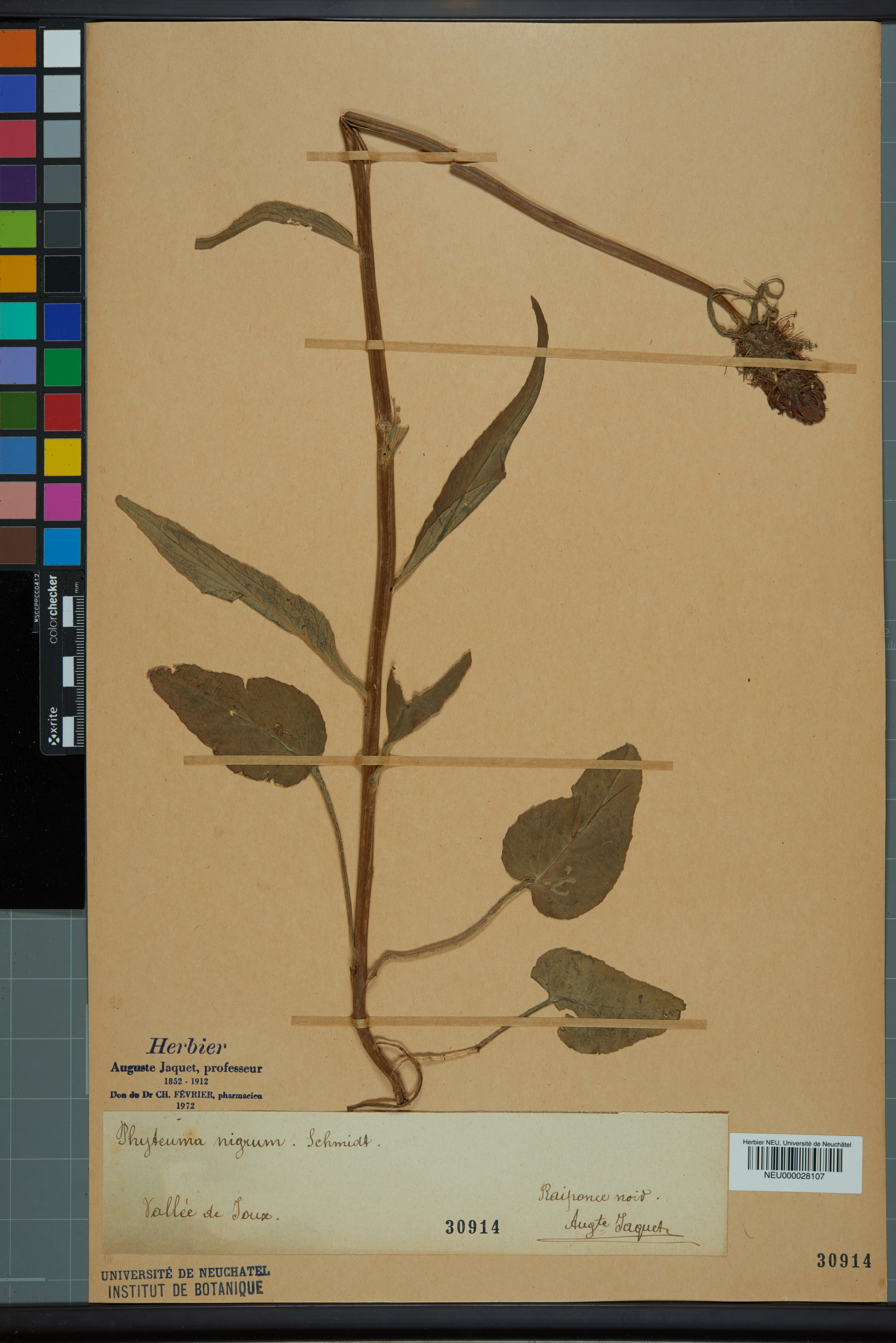 Dried pressed specimen of Phyteuma nigrum